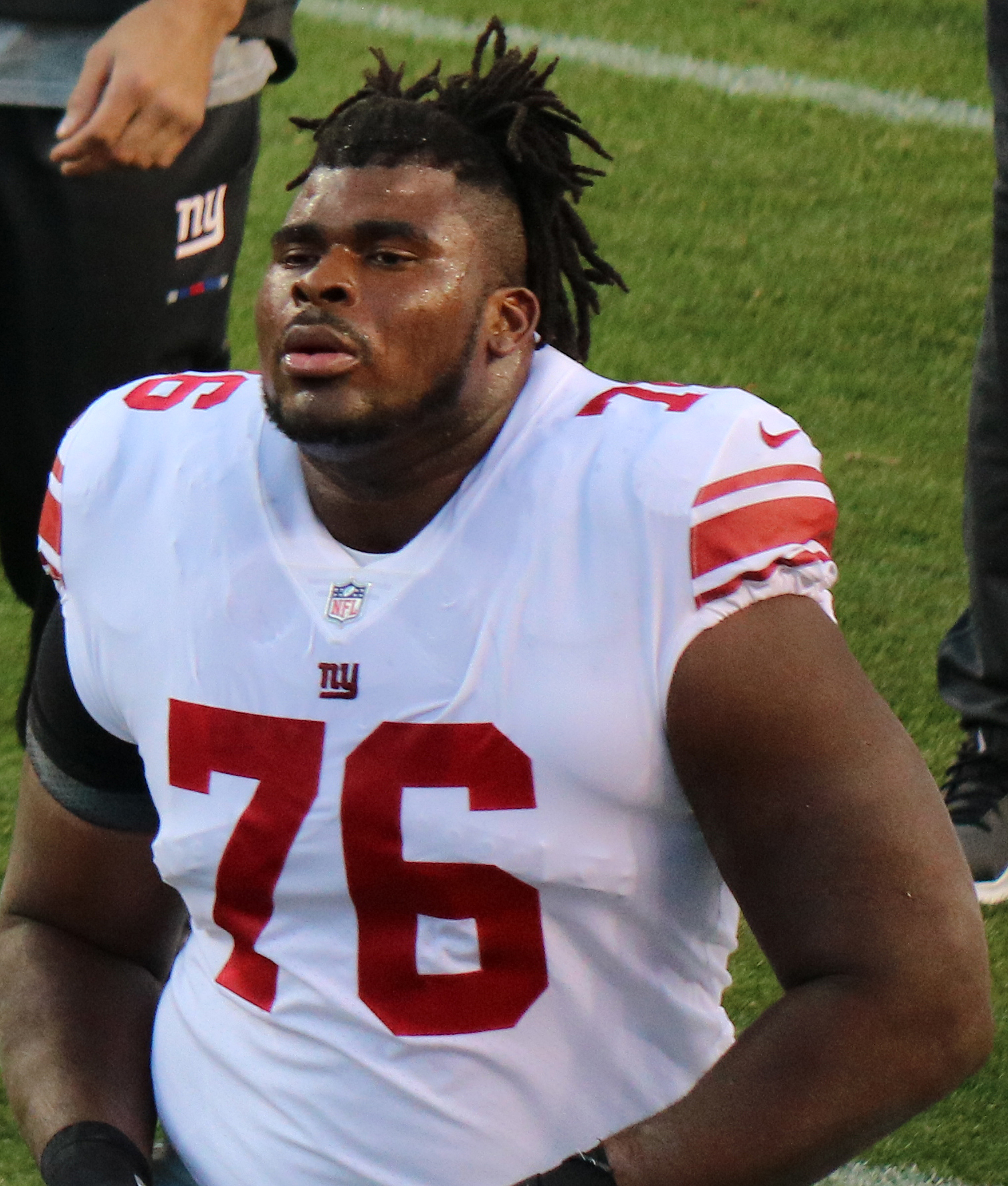 D. J. Fluker, a player on the National Football League.